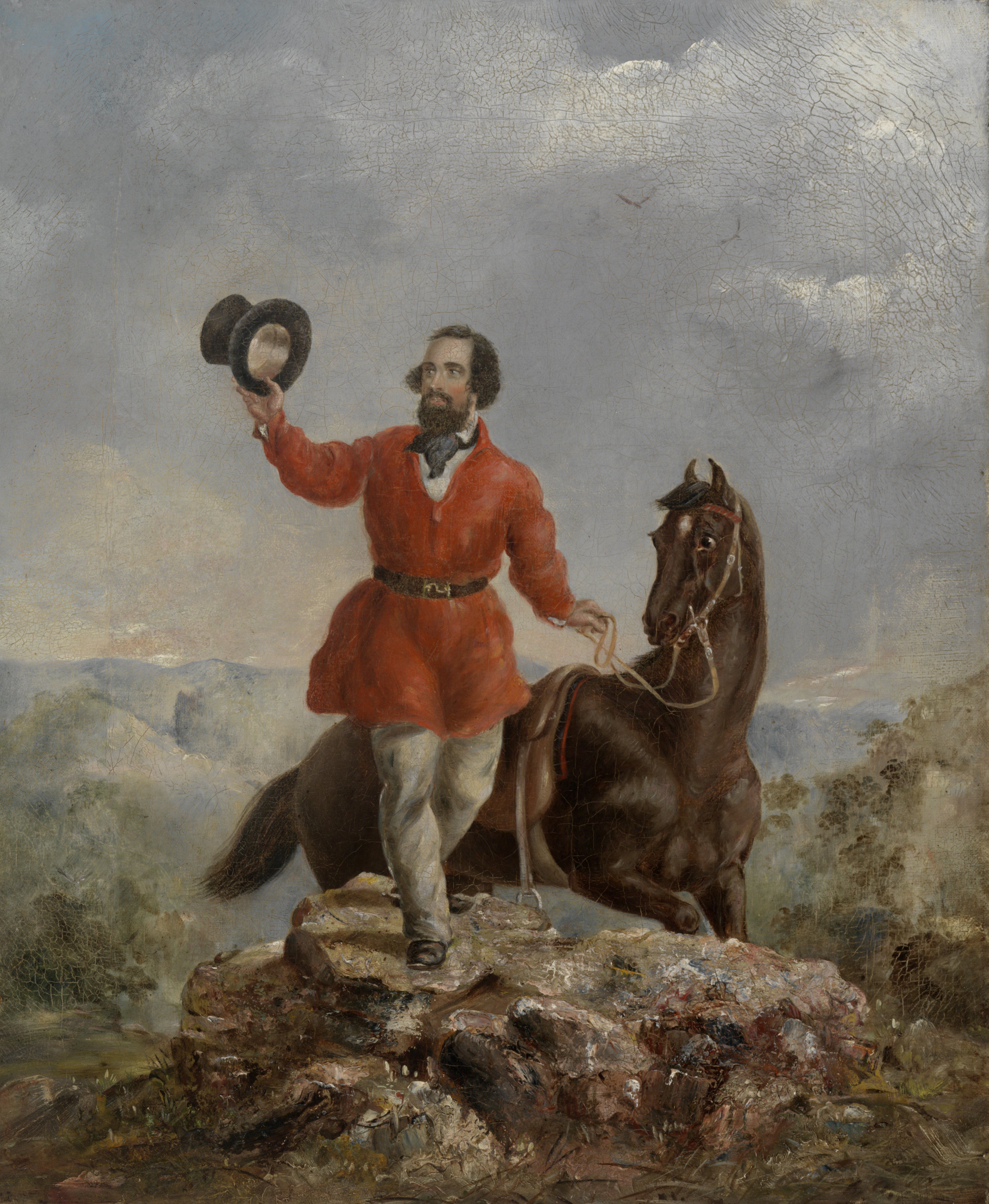 Mr E.H. Hargraves, the gold discoverer of Australia, 12 February 1851, returning the salute of the gold miners, painted by T.T. Balcombe, ML 532